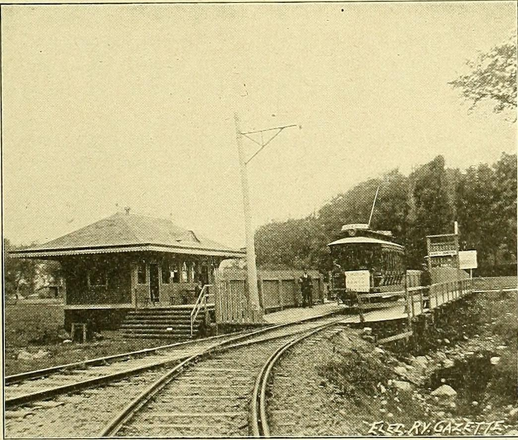 Identifier: electricrailwayg13newy Title: Electric railway gazette Year: 1895 (1890s) Authors: Subjects: Electric railroads Publisher: New York : [W.J. Johnston Co.] Text Appearing Before Image: ,-«L. ■ ^^T^ 8| MgSgSh* ic -^KV. *^^_ n mBEgjU* *-- ~ -M. 1 .- PjaS^-t ■»■ T^l ■■- -2 fe*- ^ ^ wp^-^^^r £ ■? • y. .£2Tc9ft imGO??? MONTREAL PARK & ISLAND RAILWAY — NEAR BACK RIVERPARK. reversible seats, giving a total seating capacity of 45 pas-sengers. The track. construction throughout the road is of avery substantial character. Fifty-six-pound T-rails areemployed on all of the suburban lines. _ They are spikedto Tamarack ties and the tracks are ballasted with brokenstone throughout. The rails are bonded with heavycopper wire and are cross-bonded at every sixth joint. Text Appearing After Image: .:-m - MONTREAL PARK & ISLAND RAILWAY-STATION AT BACK RIVERPARK Wooden side poles are employed and the overheadmaterial is of the best. The lines of the road will be extended and new equip-ment will be installed, eventually forming one of the mostcomplete electric railway systems in Canada. . BY GEORGE T. HANCHETT. Three-Wire System. If we have a number of electrical devices, each requir-ing a certain current, and connect them in multiple with asource of supply, it is obvious that we must supply a lineof sufficient carrying capacity and suitable resistance todeliver a current sufficient to operate all of these variousdevices, which current is the sum of the currents of all thedevices. If we. limit ourselves to a certain loss of pressure,we thereby fix the resistance, and, therefore, the size of the..conductors which carry the current. Copper wire is veryexpensive, and while it is desirable to have a small loss ofpressure, it is also desirable to have as small a wire aspossible; th